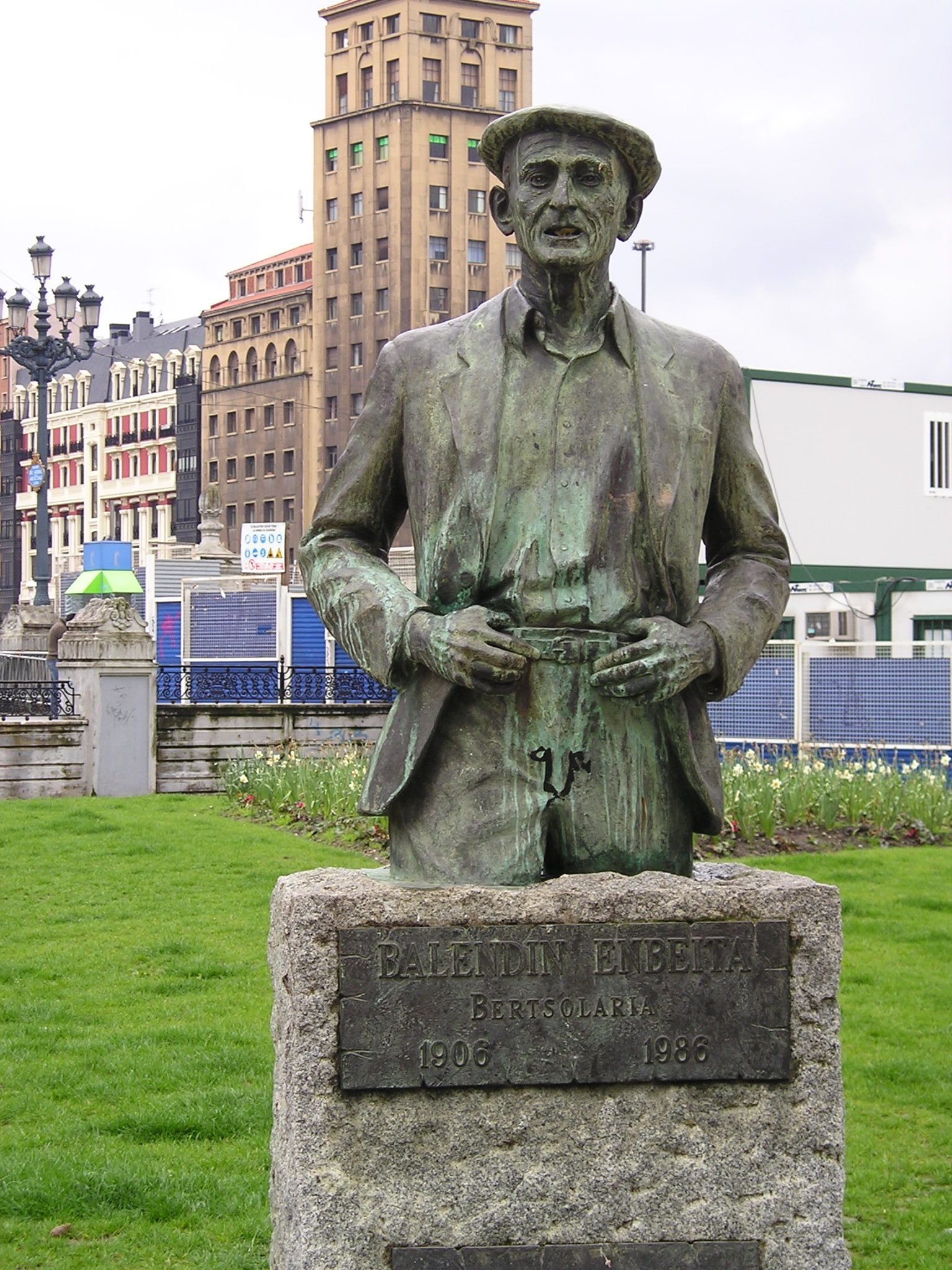 Statue of Balendin Enbeita (1906-1986), Basque bertsolari (improviser of sung verses)